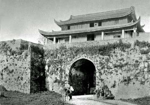 A photograph of city wall in Hangzhou, China, 1906. The gate （涌金门）no longer exists